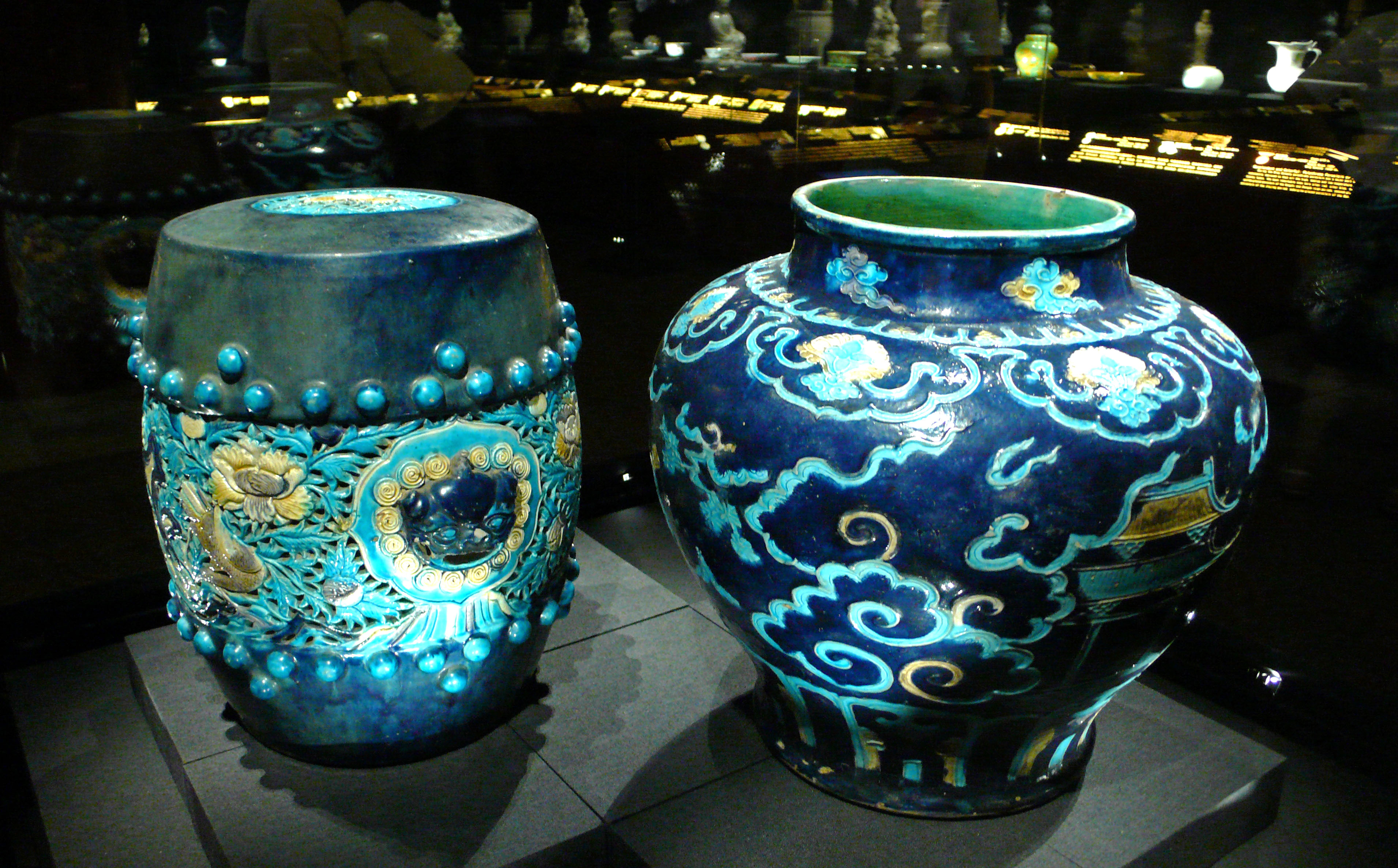 Collection of Palace Museum, Beijing. Originally uploaded to: Two blue porcelain vases of Qing Dynasty.